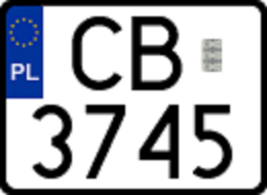 License plate from Poland since 2006, CB = Bydgoszcz